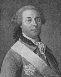 Gustav Frederik Holck-Winterfeldt (1733-1776), Danish Count, district officer, and estate owner